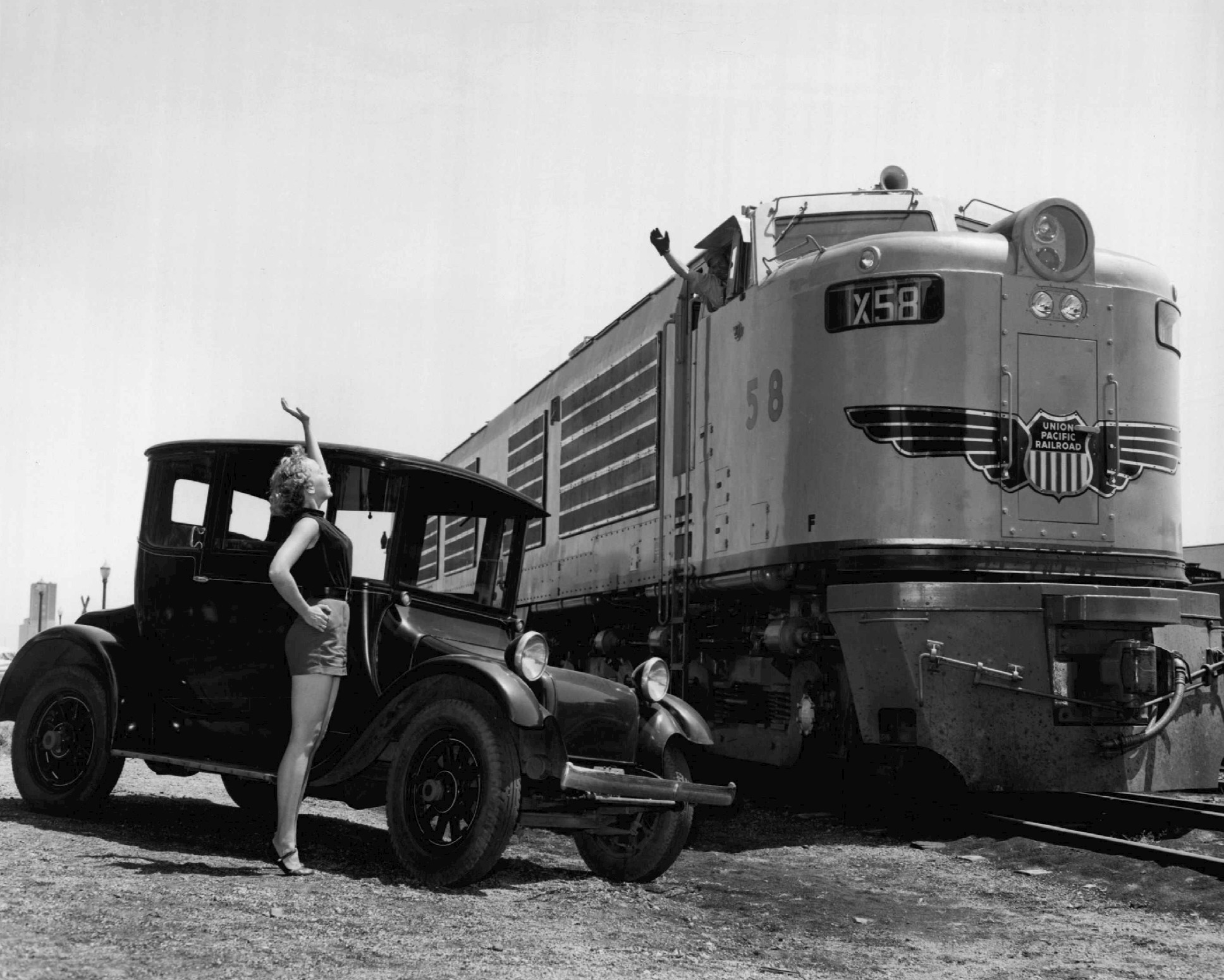 Publicity photo of a first generation Union Pacific GTEL locomotive and a circa 1923 electric auto in Fremont, Nebraska. The auto was owned by a local woman and the locomotive was on its way west to haul freight between Wyoming and Utah.